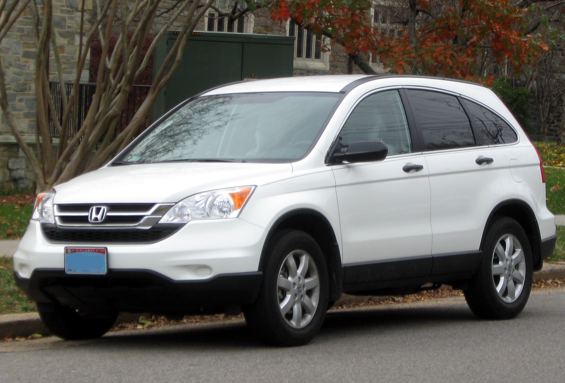 2010-2011 Honda CR-V photographed in Washington, D.C., USA.